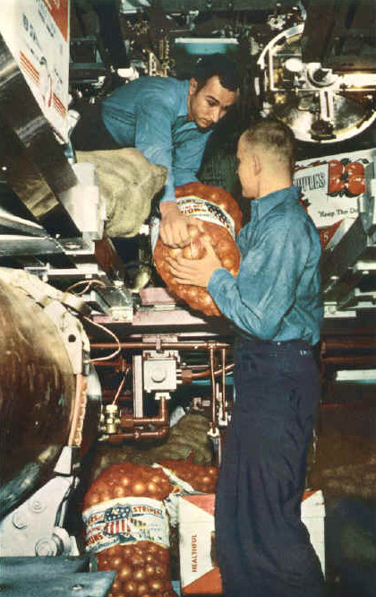 Loading stores onboard USS Triton (SSRN-586) in preparation for her 1960 submerged crcumnavigation of the world.